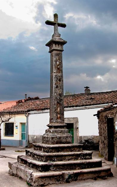 Crucero de mediados del s. XVI. Barrio de los Mesones, Ledesma, Salamanca.